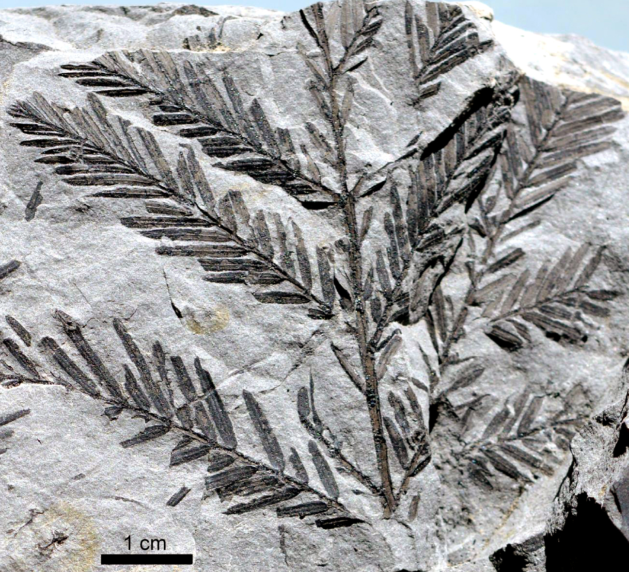 Metasequoia occidentalis, early Paleocene, central Alberta